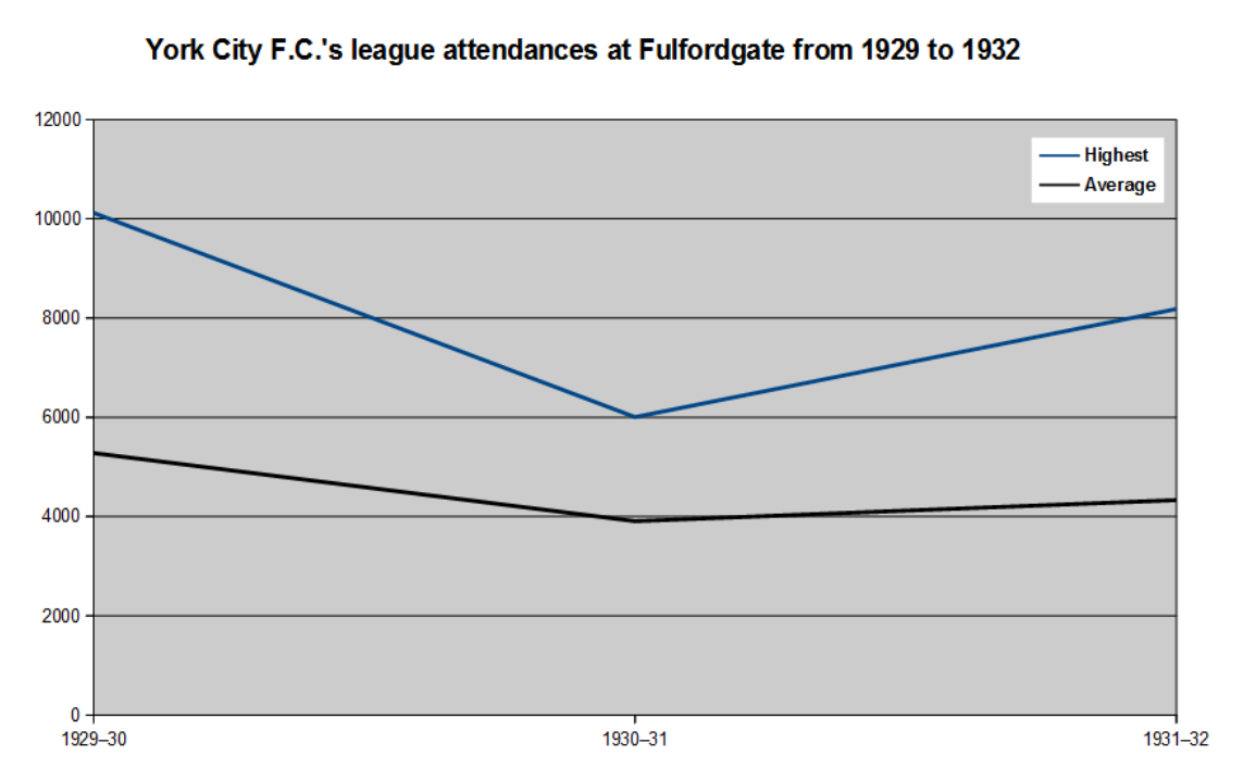 A graph of York City F.C.'s league attendances at Fulfordgate, Fulford from 1929 to 1932 Highest attendances for the 1929–30 to 1931–32 seasons: Batters, David (2008) York City: The Complete Record, Derby: Breedon Books, pp. 252–256 ISBN: 978-1-85983-633-0. Average attendances for 1929–30 to 1931–32: Batters York City: The Complete Record, p. 235